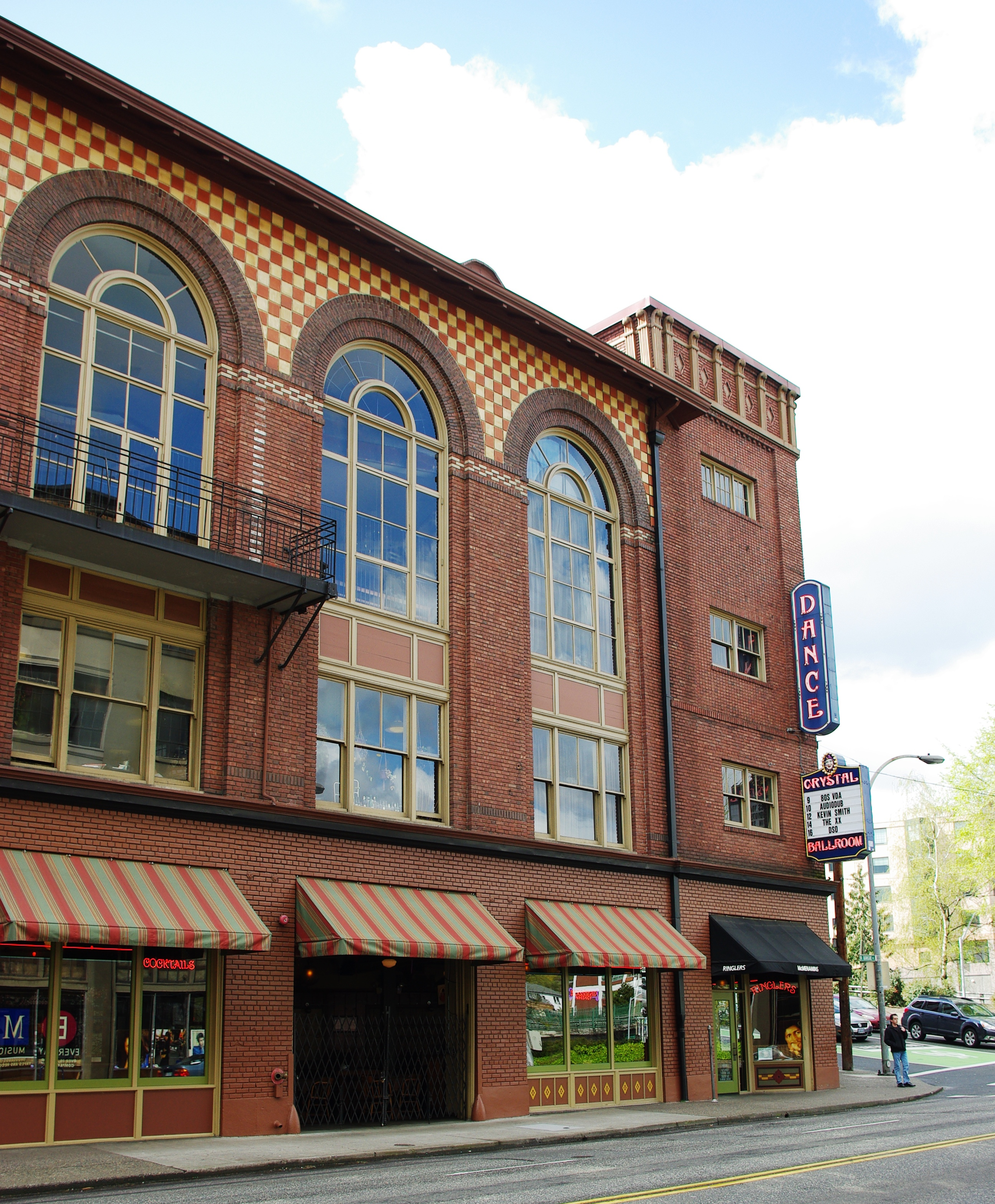 Crystal Ballroom in Portland, Oregon.